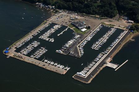 EYC Aerial 2012